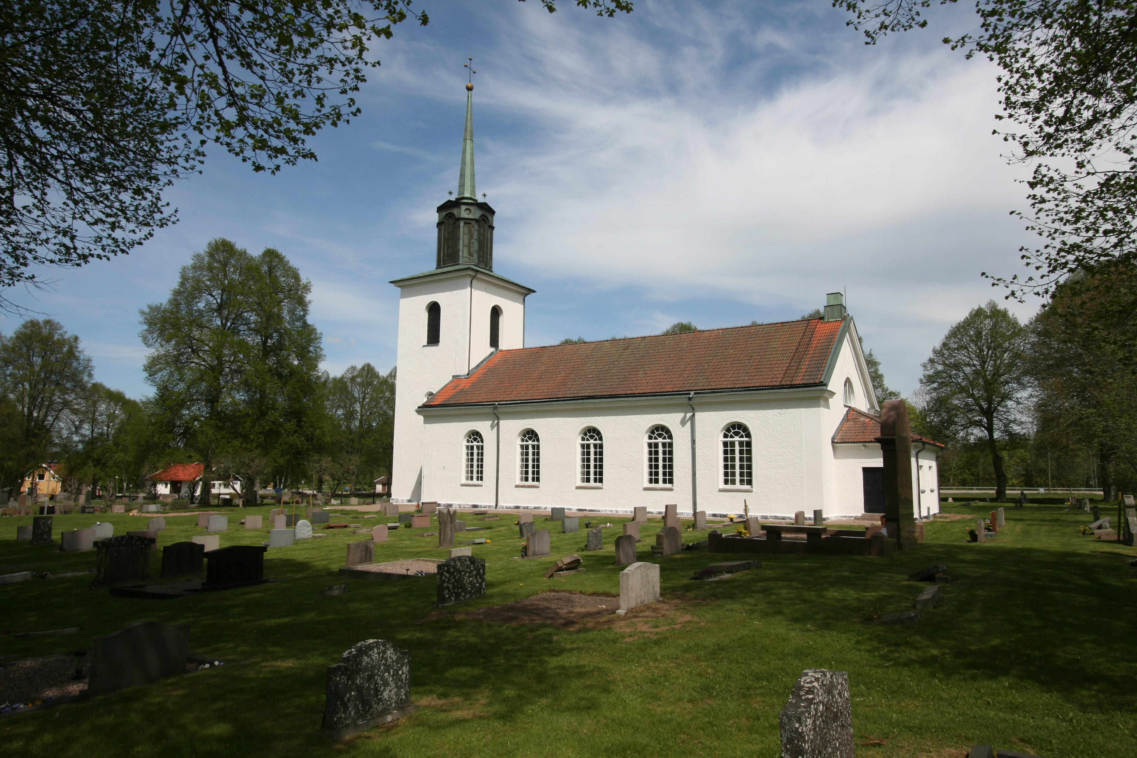 Hudene church